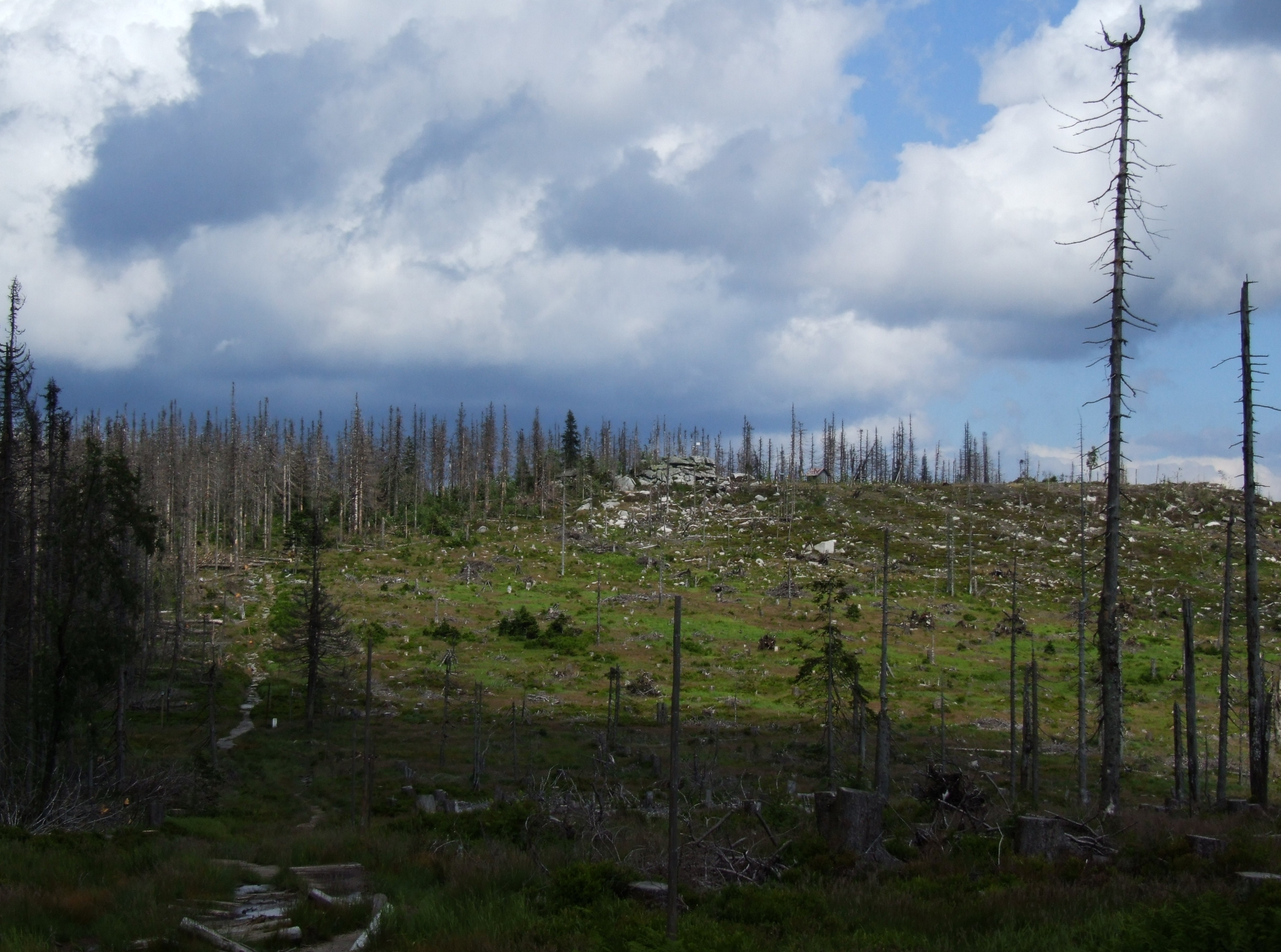 Šumava (Böhmerwald) - mount Plöckenstein/Plechý